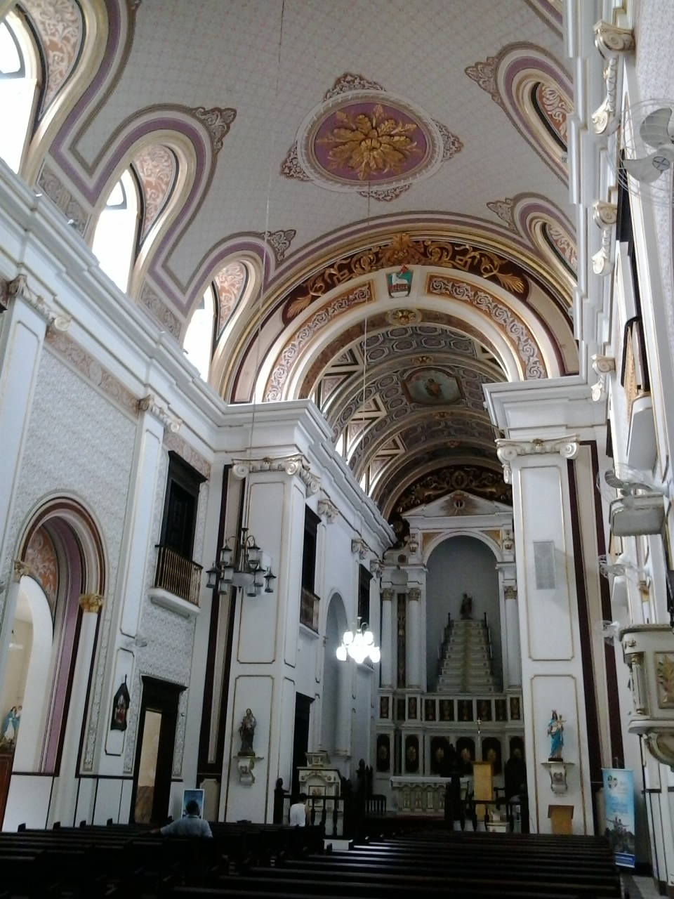 Interior da Catedral de São João Batista